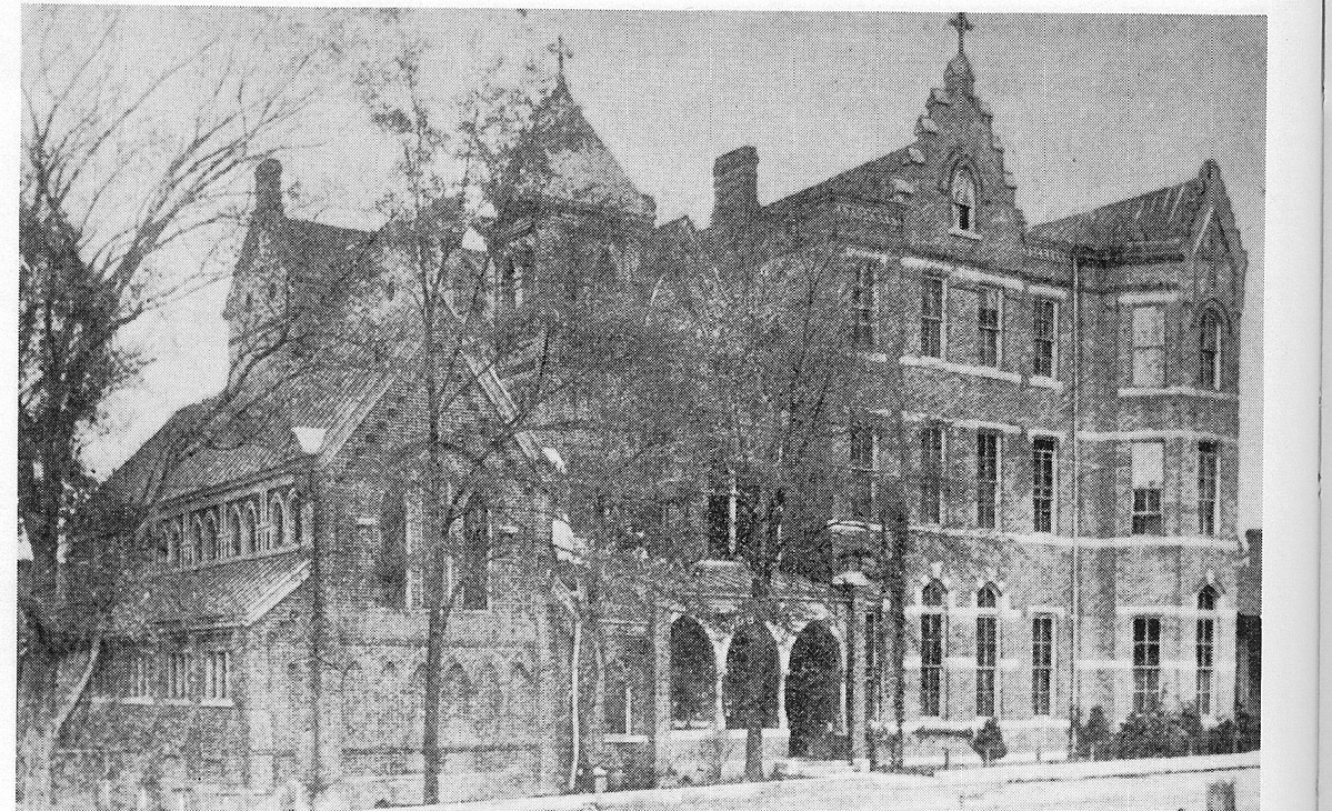 Sister's Chapel and St. Mary's School for Girls, Memphis, Tennessee. The school, long since demolished, is now located at the Church of the Holy Communion in East Memphis. The Sister's Chapel (Sisters of St. Mary, later Order of St. Mary, and now Community of St. Mary) still stands.